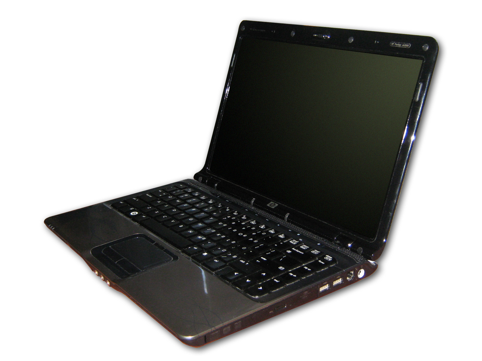 HP Pavilion dv2500se laptop, featuring the Verve Imprint finish.